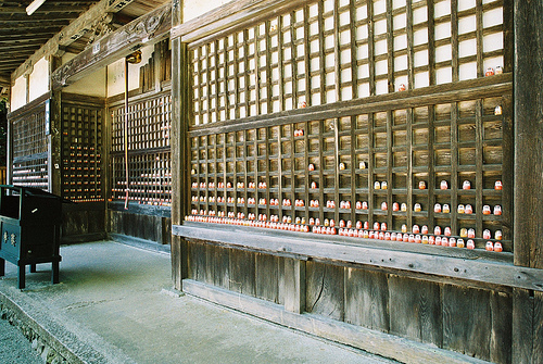 Photo of daruma dolls left at Katsuo-ji temple, north of Osaka, Japan. Taken and uploaded by W. R. Hogue.